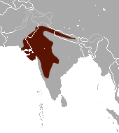 Anderson's Shrew (Suncus stoliczkanus) range